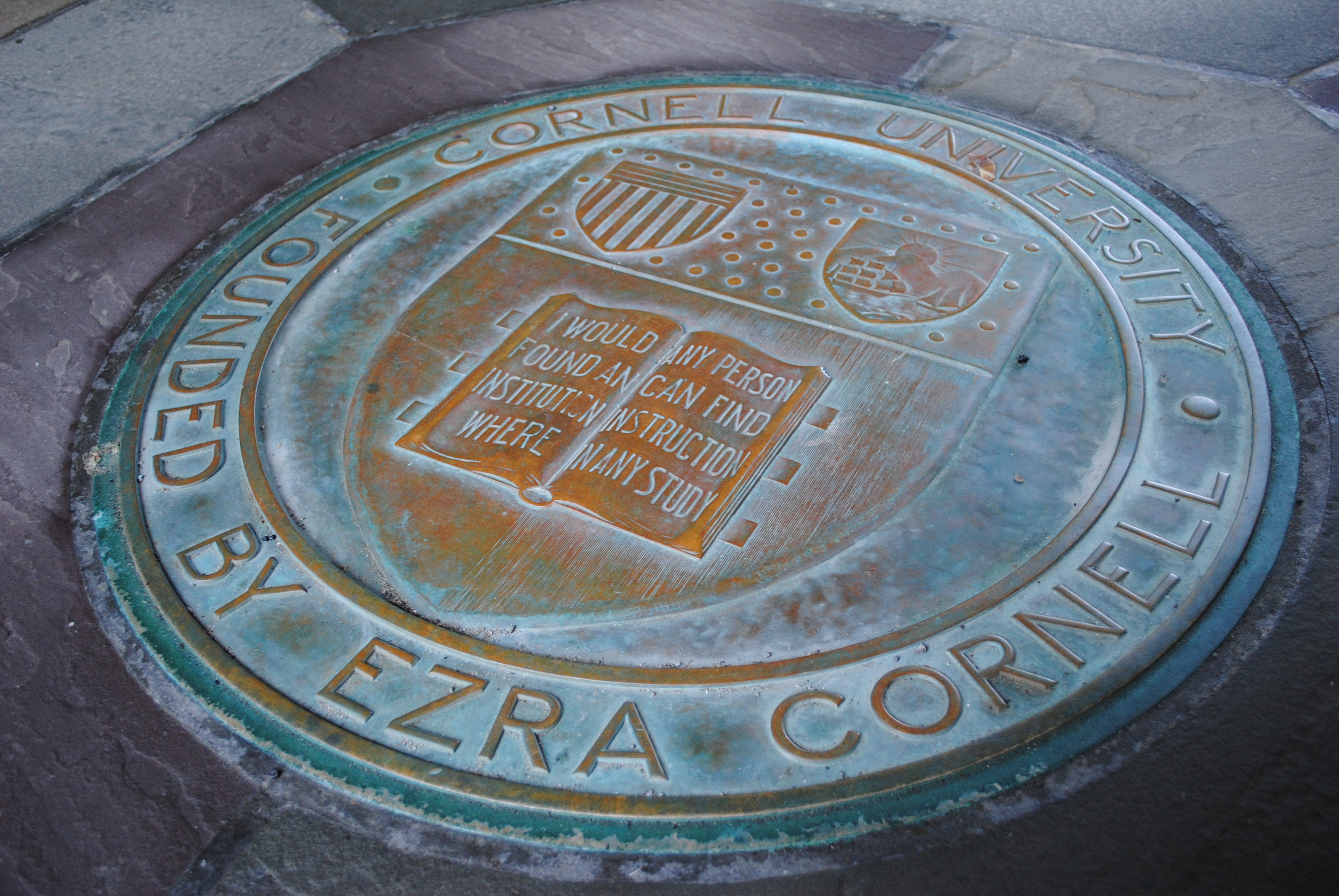 Cornell University seal on the ground underneath the tower of Cornell Law School